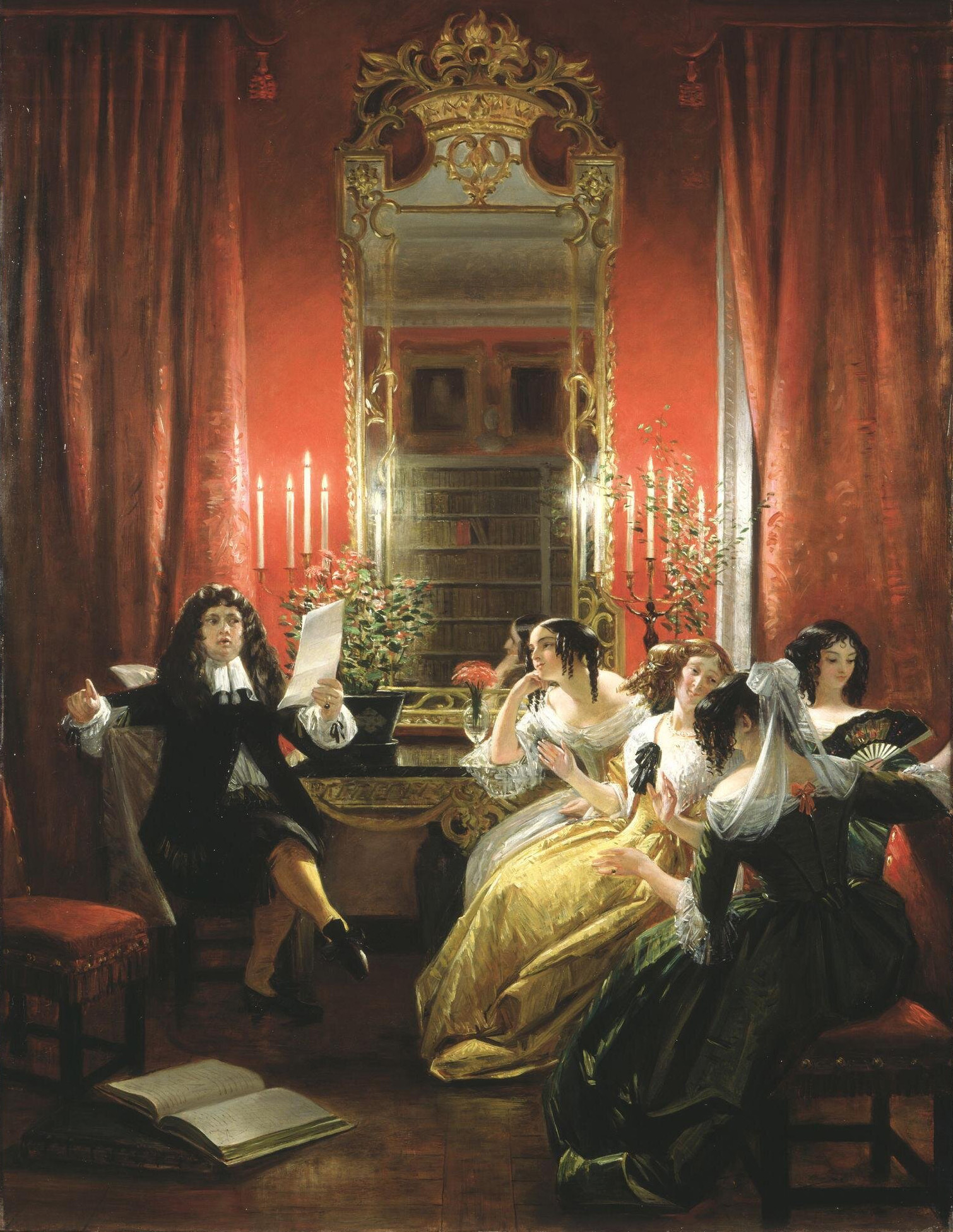 Oil paintings such as this with subjects taken from popular literature steadily replaced commissions for history paintings in the early 19th century. The public and most collectors of modern works started to prefer lighter and sometimes more sentimental themes. Leslie frequently used themes from humorous literature. Here he is illustrating a scene from a play by Molière, Les Femmes Savantes ('The Learned Ladies'), in which the conceited Trissotin reads a pretentious sonnet of his own composition to his admiring audience of literary ladies, the self-styled 'learned ladies' of the title. When this picture was exhibited at the Royal Academy in London in 1845, it was called A Scene from Molière and several lines from the play were quoted in the catalogue. Although Leslie began his career as a history and portrait painter, he soon turned to literary themes. The collector John Sheepshanks (1787-1863) owned 17 paintings by Leslie with subjects taken from well-known authors such as Shakespeare, Chaucer and Molière.